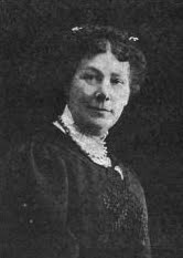 Dora Montefiore on the cover of The Progressive Woman, August 1909.